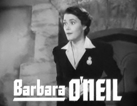 Cropped screenshot of Barbara O'Neil from the trailer for the film Shining Victory.